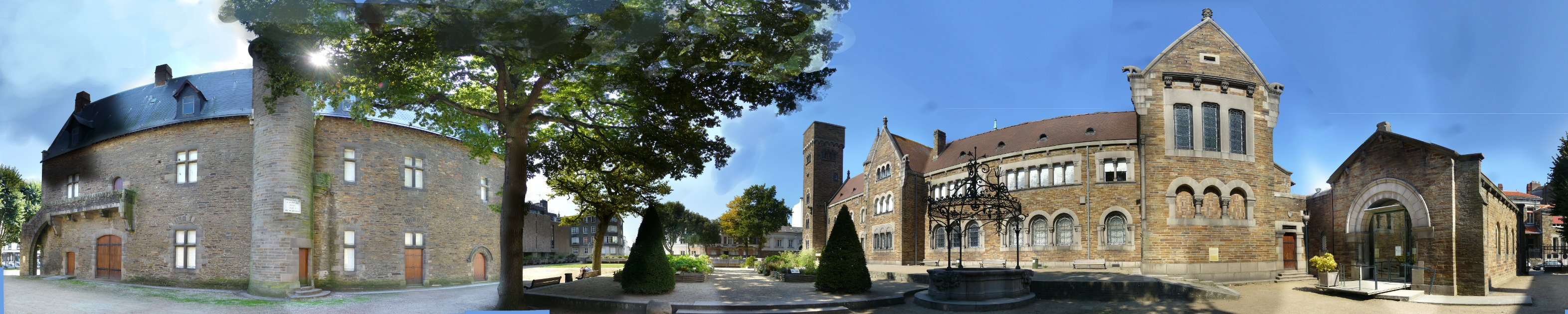 court of the Dobrée Muséum